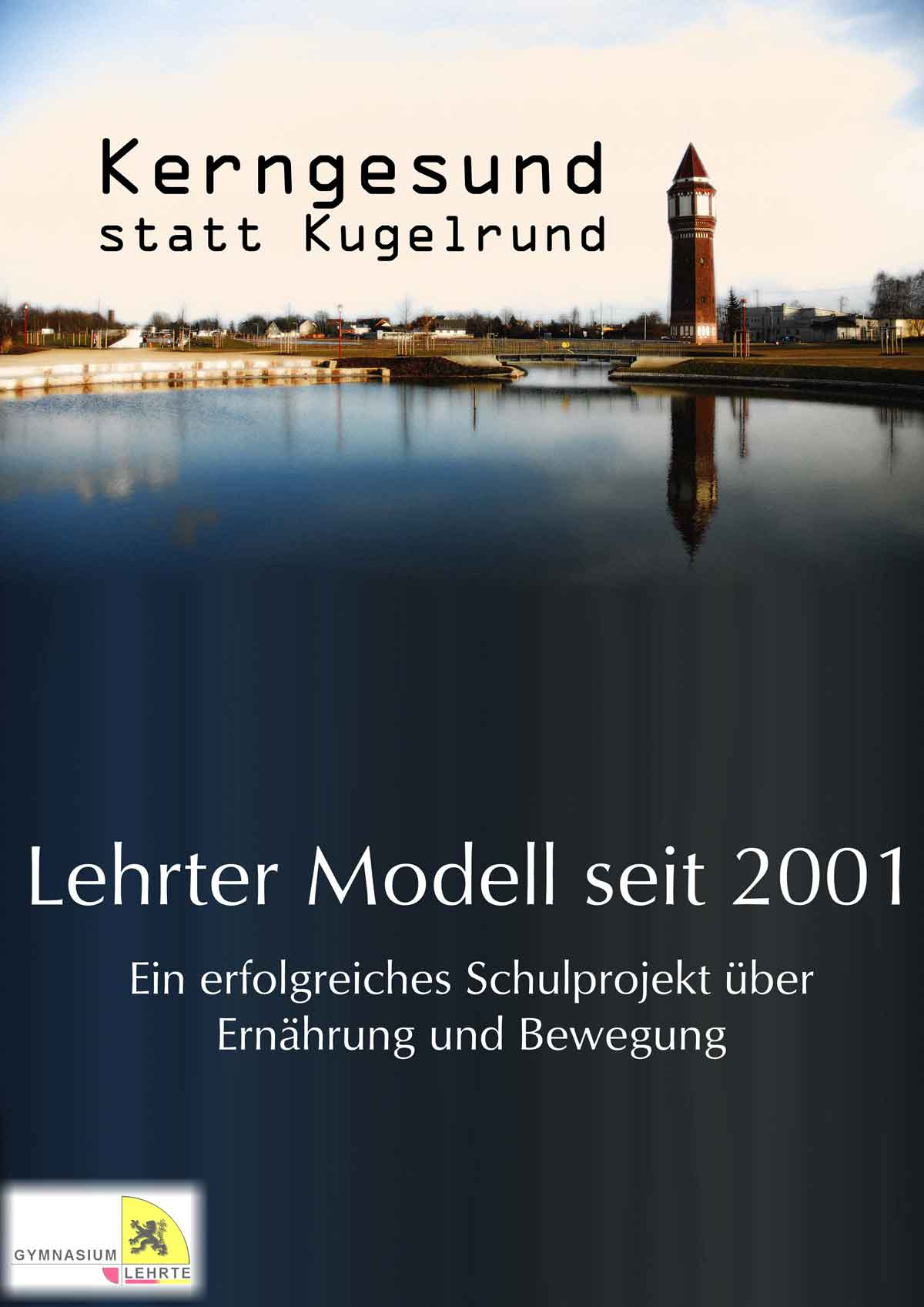 Cover of "Lehrter Modell"